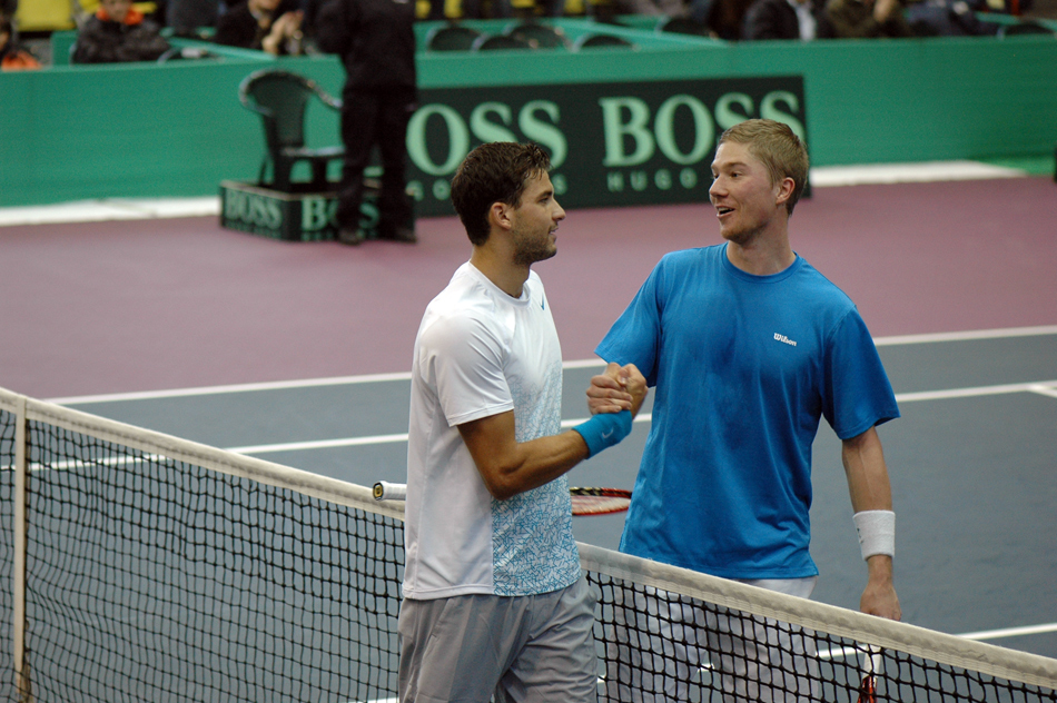 Grigor Dimitrov defeating Juho Paukku (6-1, 6-1, 6-0) and Bulgaria led Finland 1-0 during the first round of the Group II for the 2013 Davis Cup